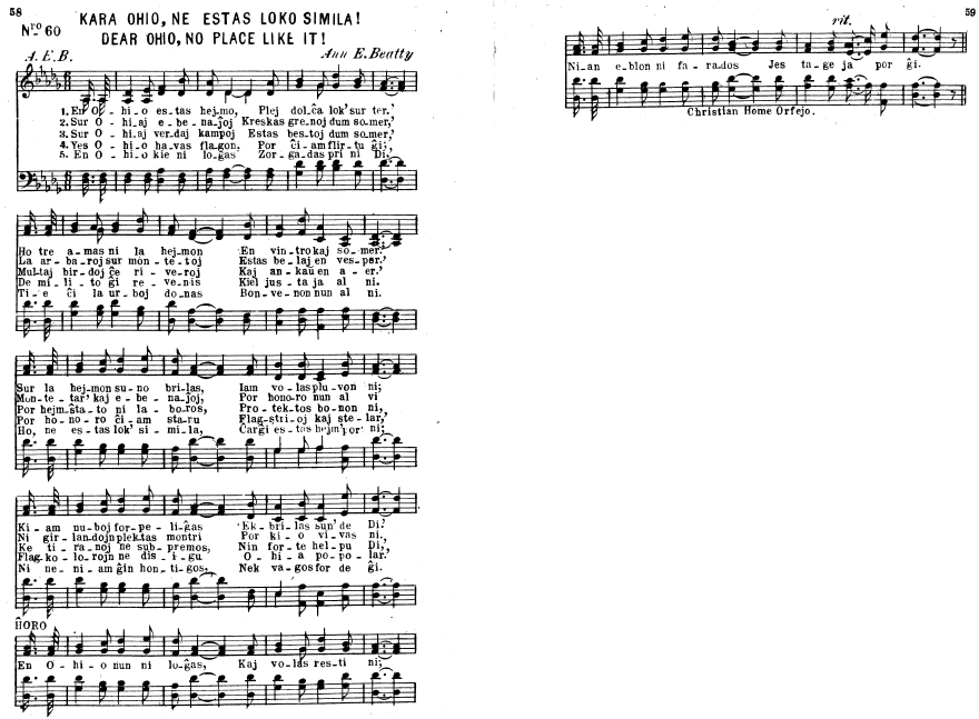 This is a PNG (made from a PDF scan) of "Kara Ohio, ne estas loko simila", a song about Ohio in Esperanto, from the ca. 1920 hymnal Espero Internacia